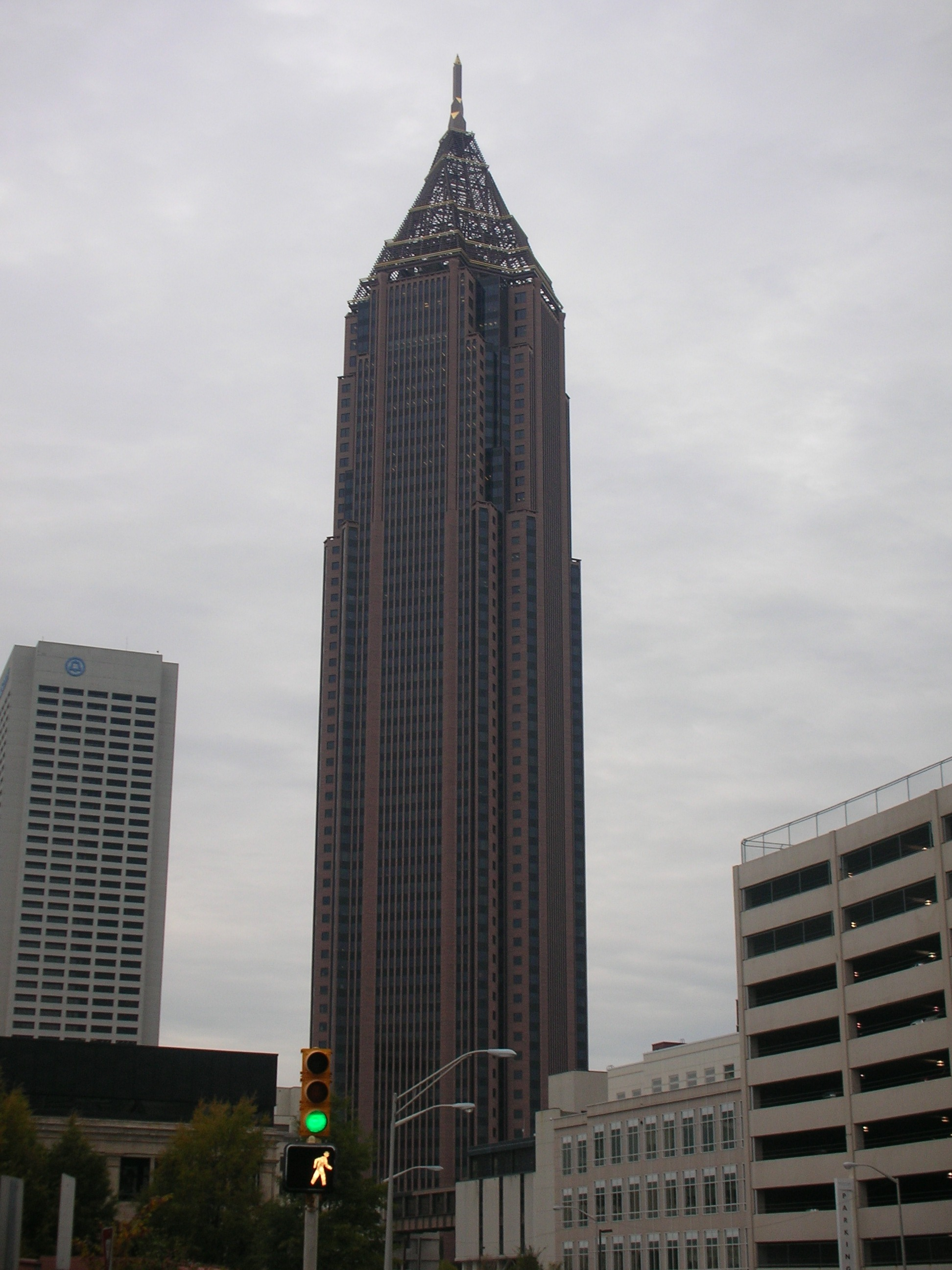 Category:Images of Atlanta, Georgia